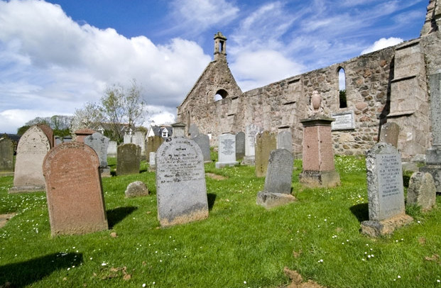 Ancient Church, Kincardine O'Neil. This ruined church dates back to the 12th Cent and was adjacent to a hospice founded by Alan of Durward. It lies on the old road between Mar and Strathmore and was located at a strategic ford and ferry across the Dee. Edward 'Longshanks' camped in the adjacent field on one of his campaigns to hammer the Scots.